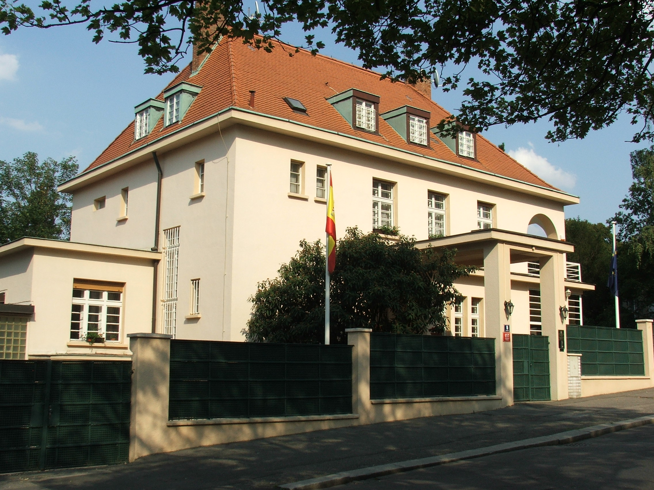 Residence of spanish ambassador - Embassy of Spain in Prague - Střešovice, Czechia.